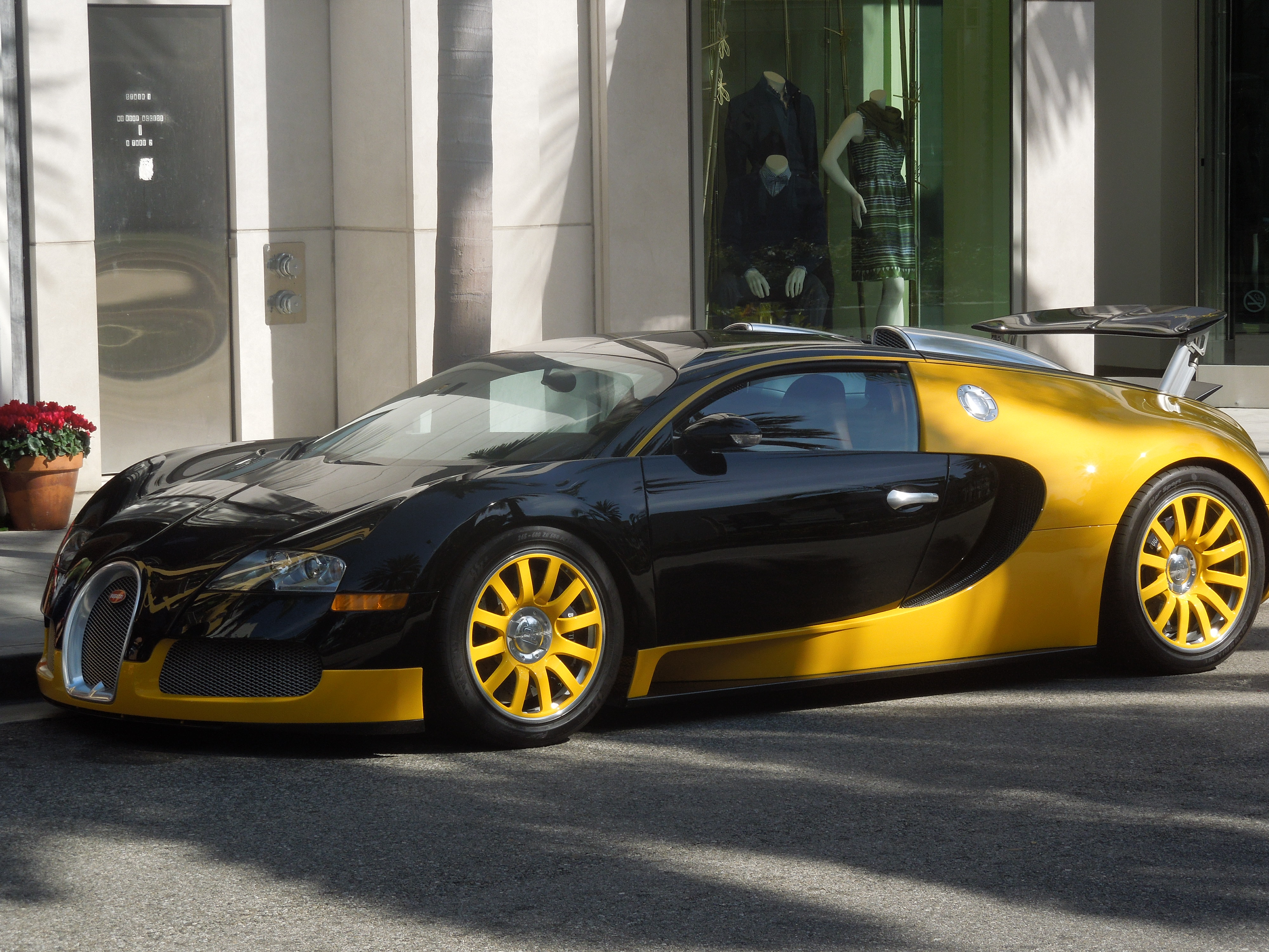 Bugatti Veyron in Beverly Hills, California